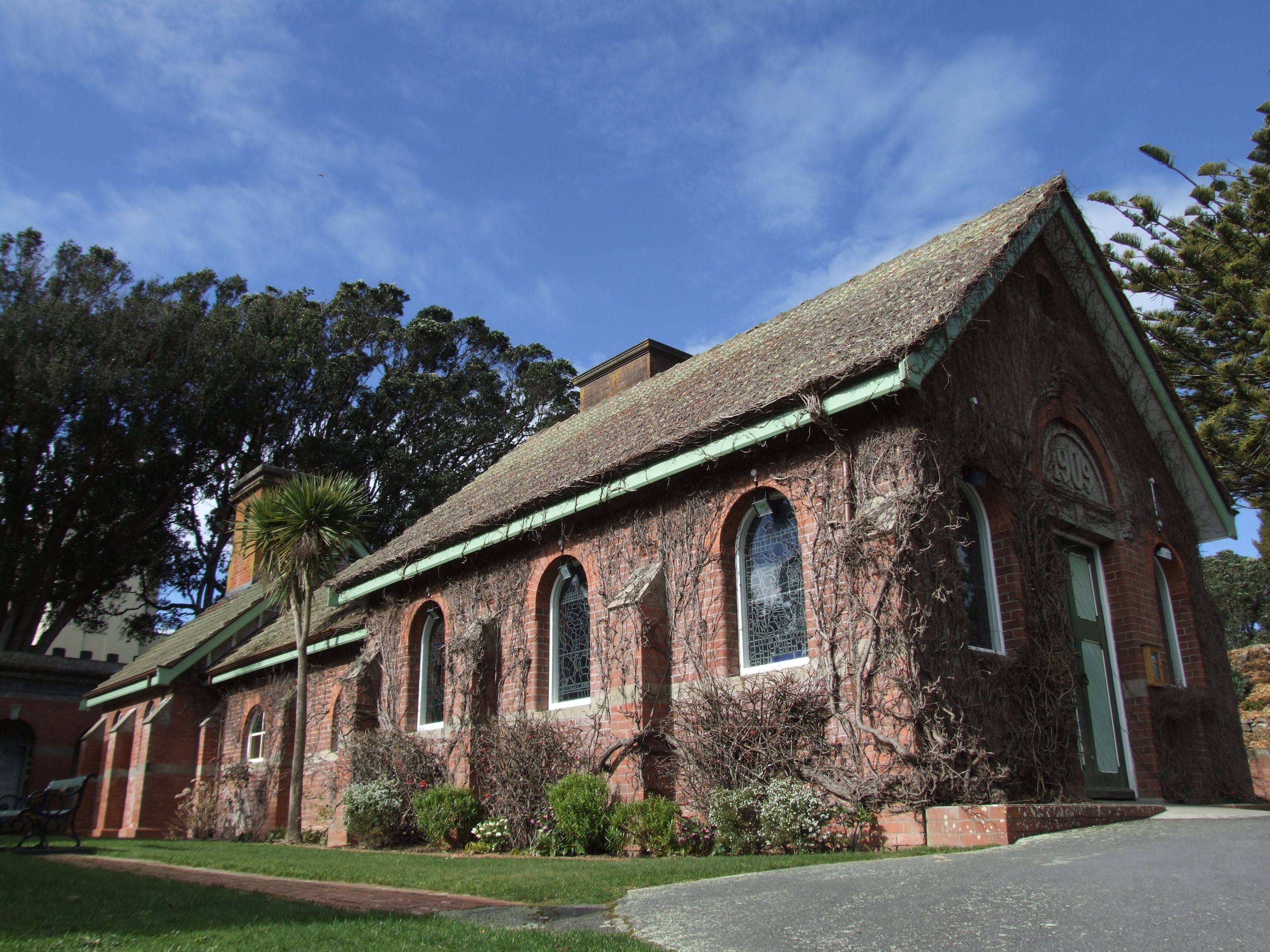 Image title: Crematorium Karori Cemetery. NZHPT Category I; register number 1399. Image from Public domain images website